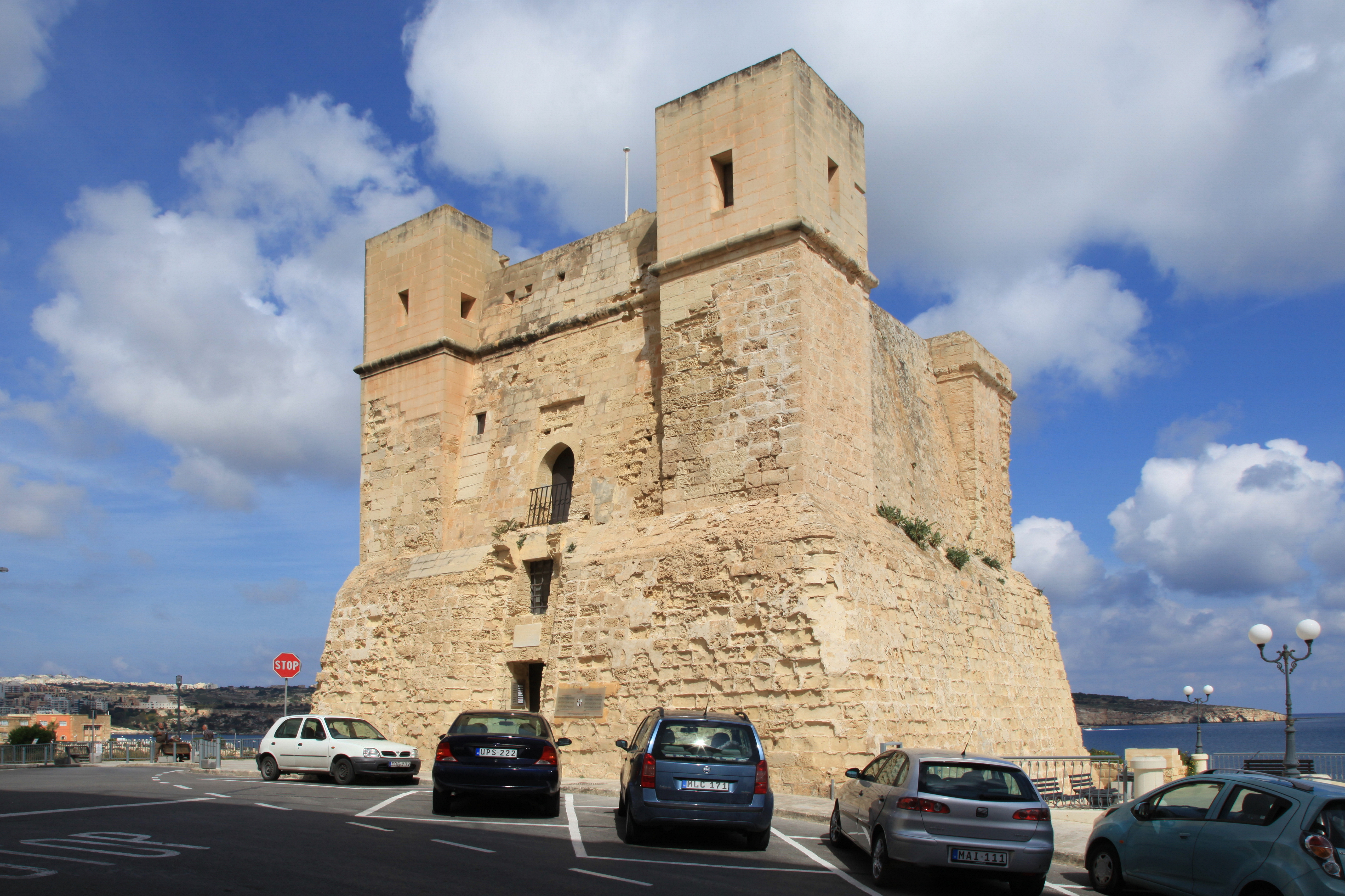 St. Paul's Bay Tower, Triq San Frangisk/Triq San Ġiraldu in St. Paul's Bay, Malta